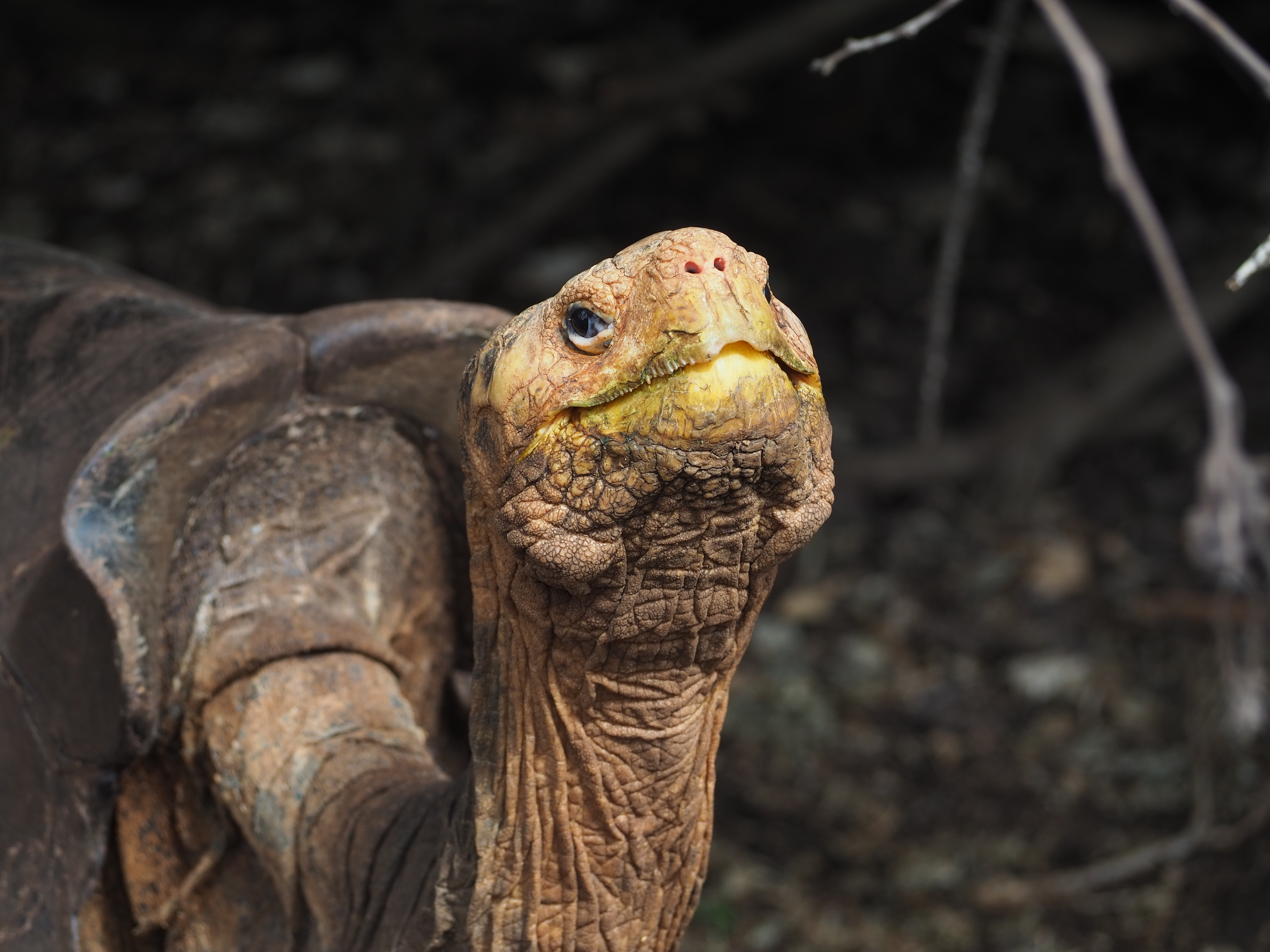 Diego, a Hood Island Giant Tortoise (Chelonoidis hoodensis) at the Charles Darwin Research Station in Santa Cruz, Galapagos